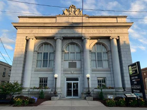 A photograph of the original Titusville Trust Company building, located in Titusville, Pennsylvania. (2010s)